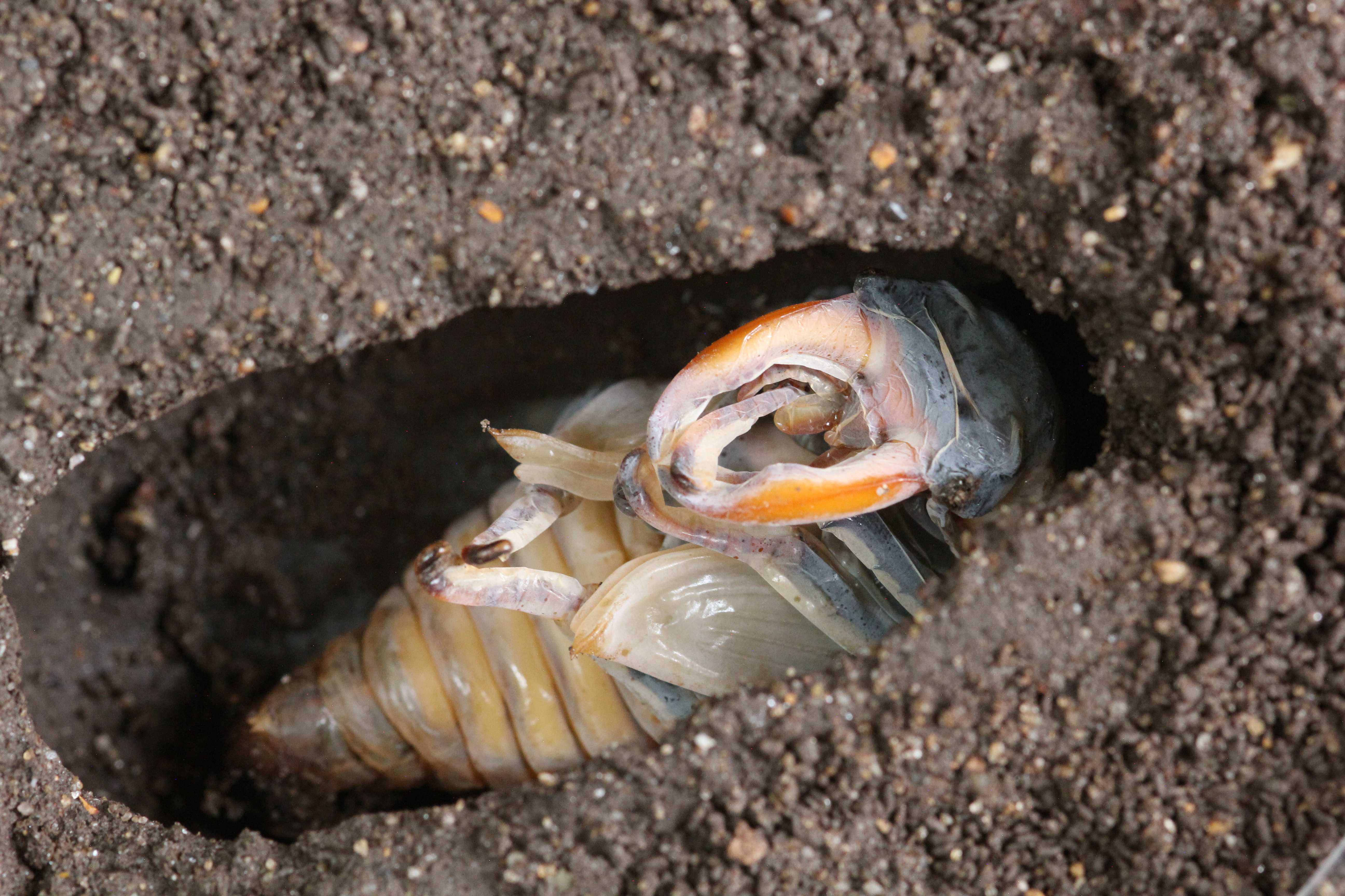 Male stag beetle pupa nearing eclosion